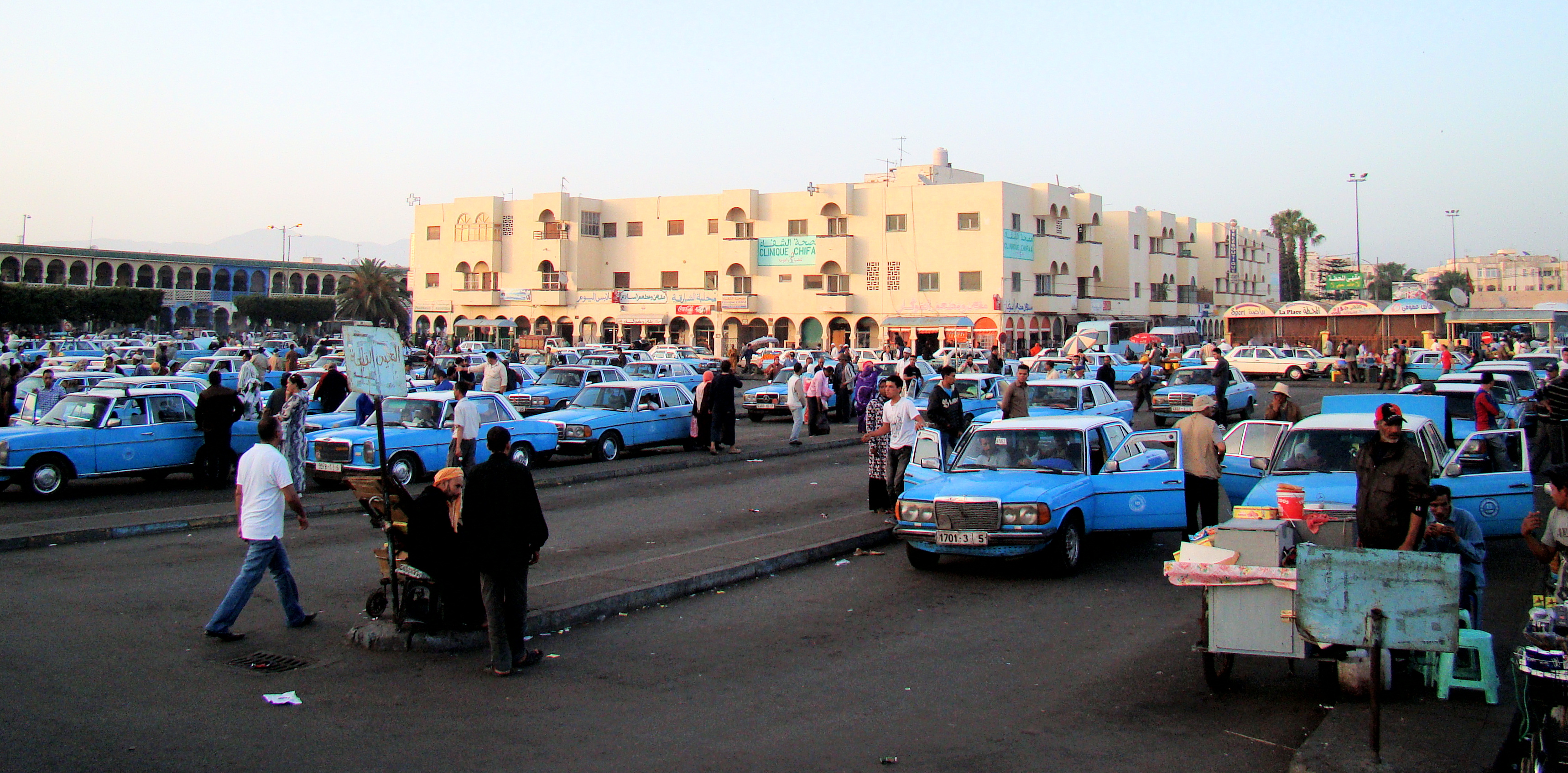 The busy gare routiere in Inezgane, at Avenue Mokhtar Soussi. This is the main terminal for grands taxis as well as short and long distance buses. Across the road is an arcade which is the main market.